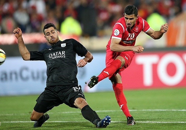 Ali Alipour and Morteza Pouraliganji in ACL 2018.